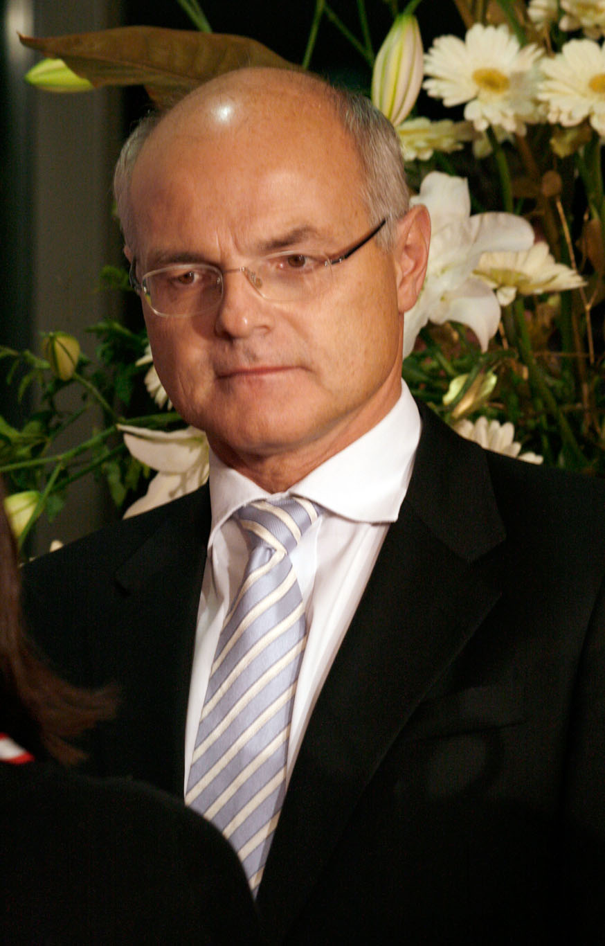 Karl Stoss at the award show for the Austrian Sportspersonalities of the year 2009.